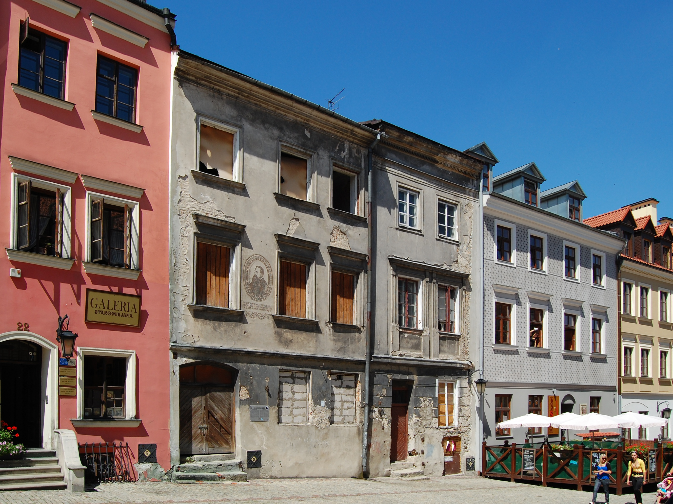 Tenement houses in Lublin, Poland.